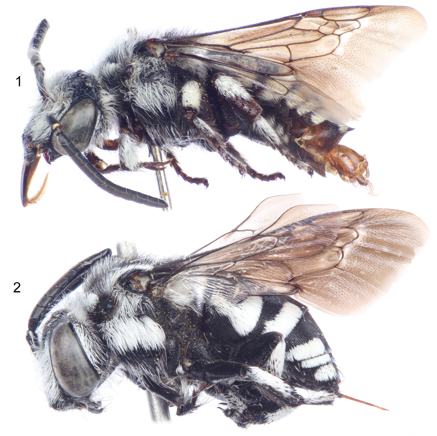 Male holotype (top) and female paratype (bottom) of the species Thyreus shebicus from northern Yemen and southwestern Saudi Arabia.